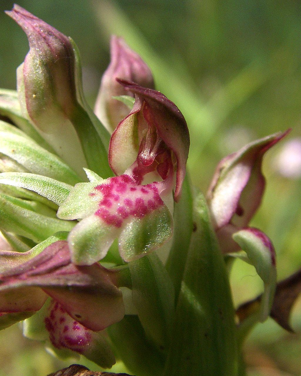 Anacamptis coriophora